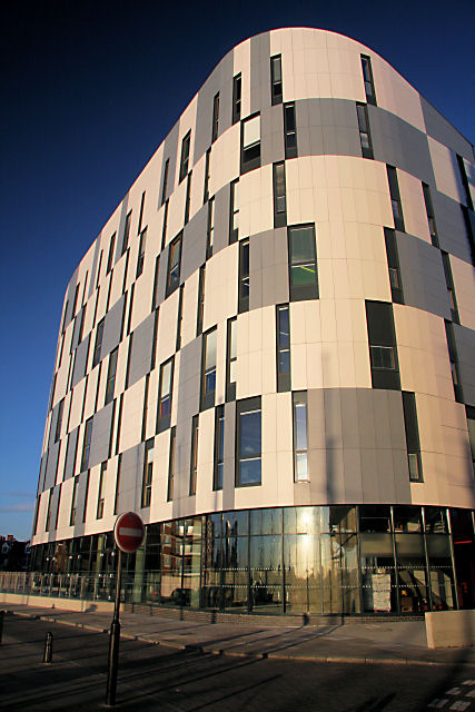 University Campus Suffolk , Ipswich Waterfront As part of the redevelopment of the Ipswich Wet Dock area, this new buildling for University Campus Suffolk was been built on the NE corner of the dock.